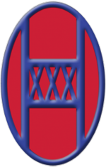 30th Armored Brigade Combat Team (ABCT) Shoulder Sleeve Insignia (SSI)